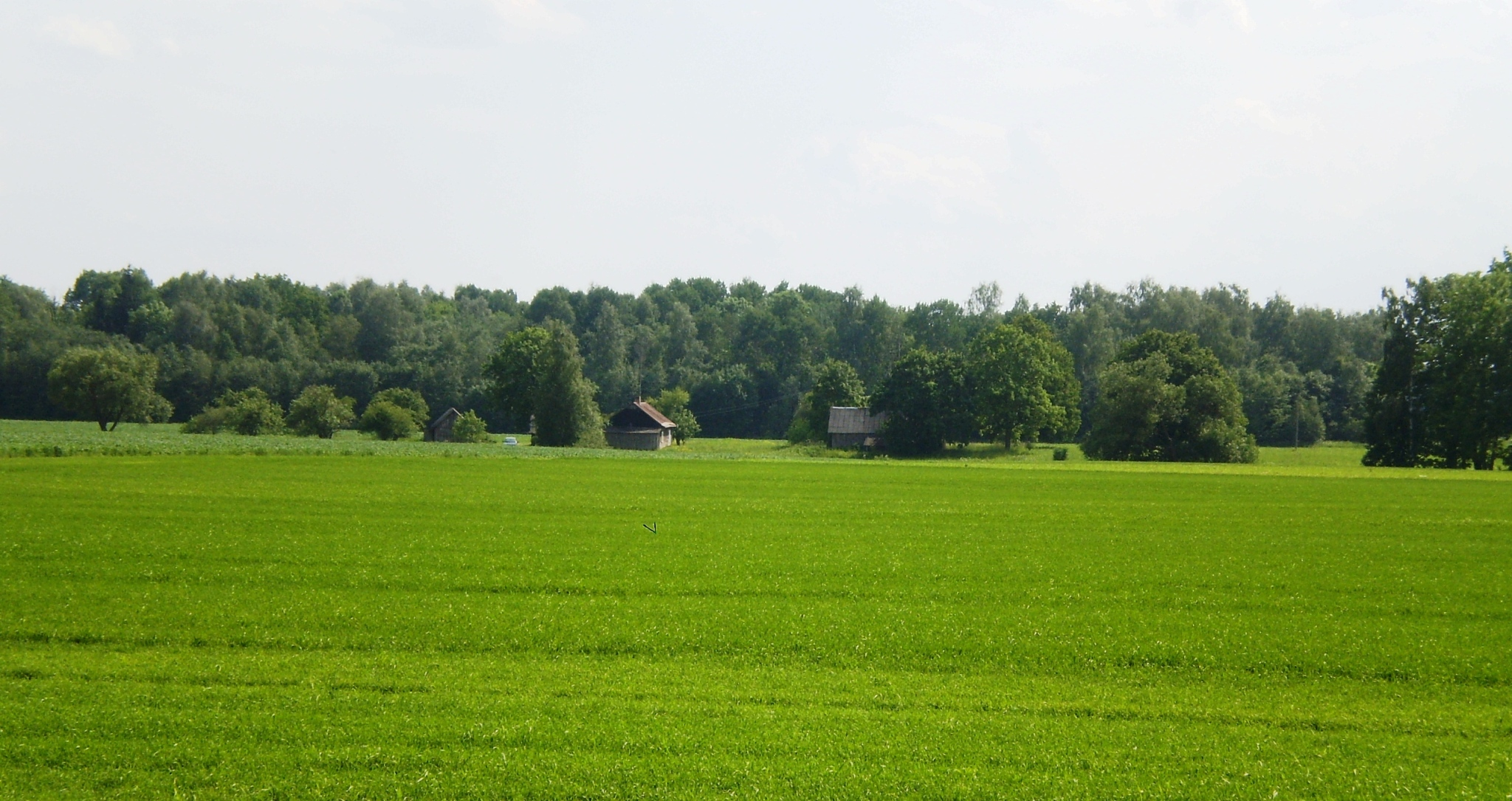 Kėboniai village, Kėdainiai district, Lithuania